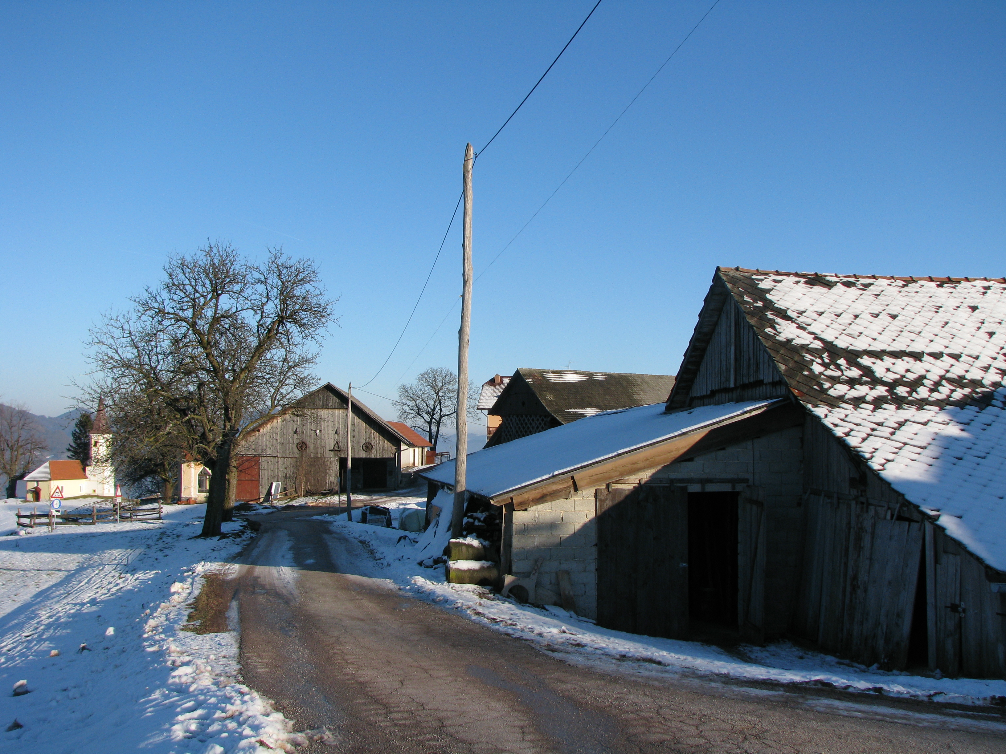 Močilno, village in Radeče municipality